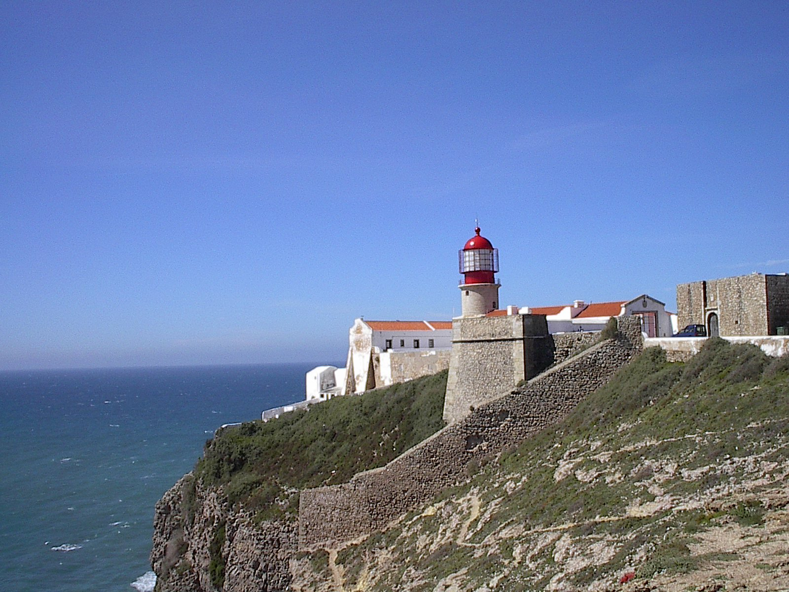 Cabo de São Vicente Lighthouse